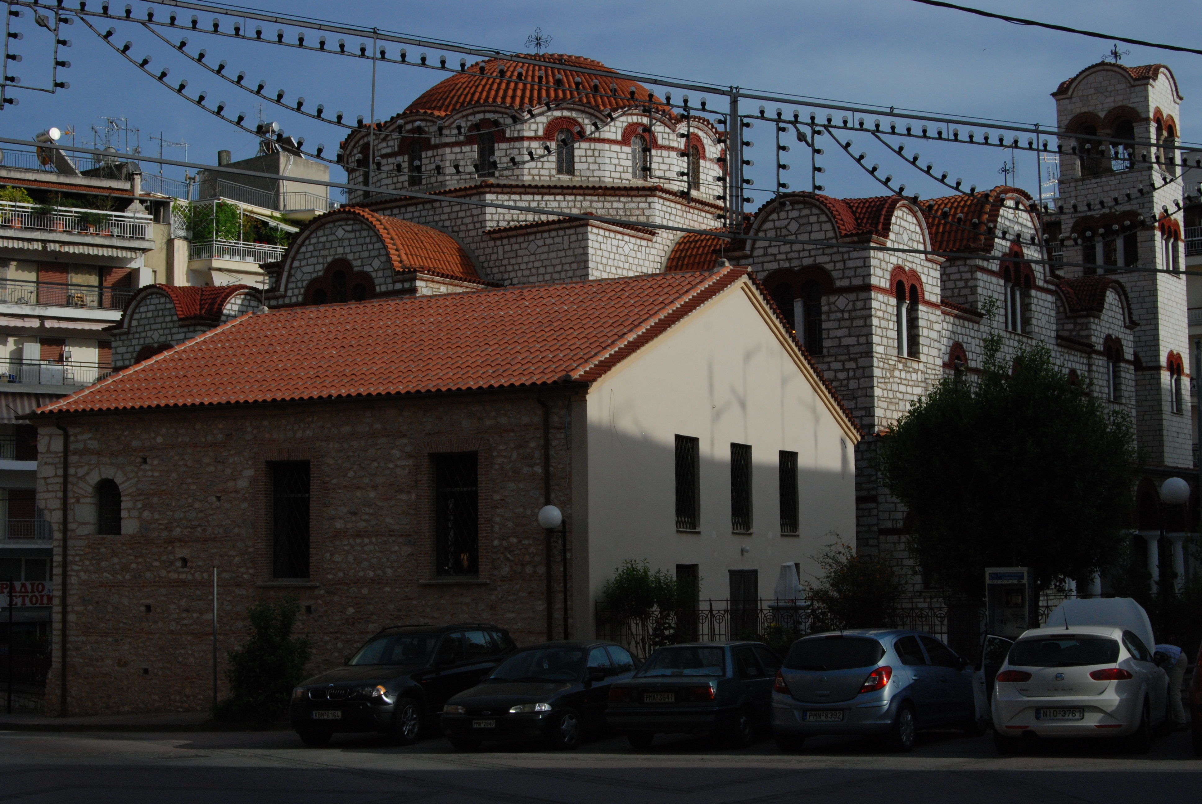 The old cathedral of Drama, Greece